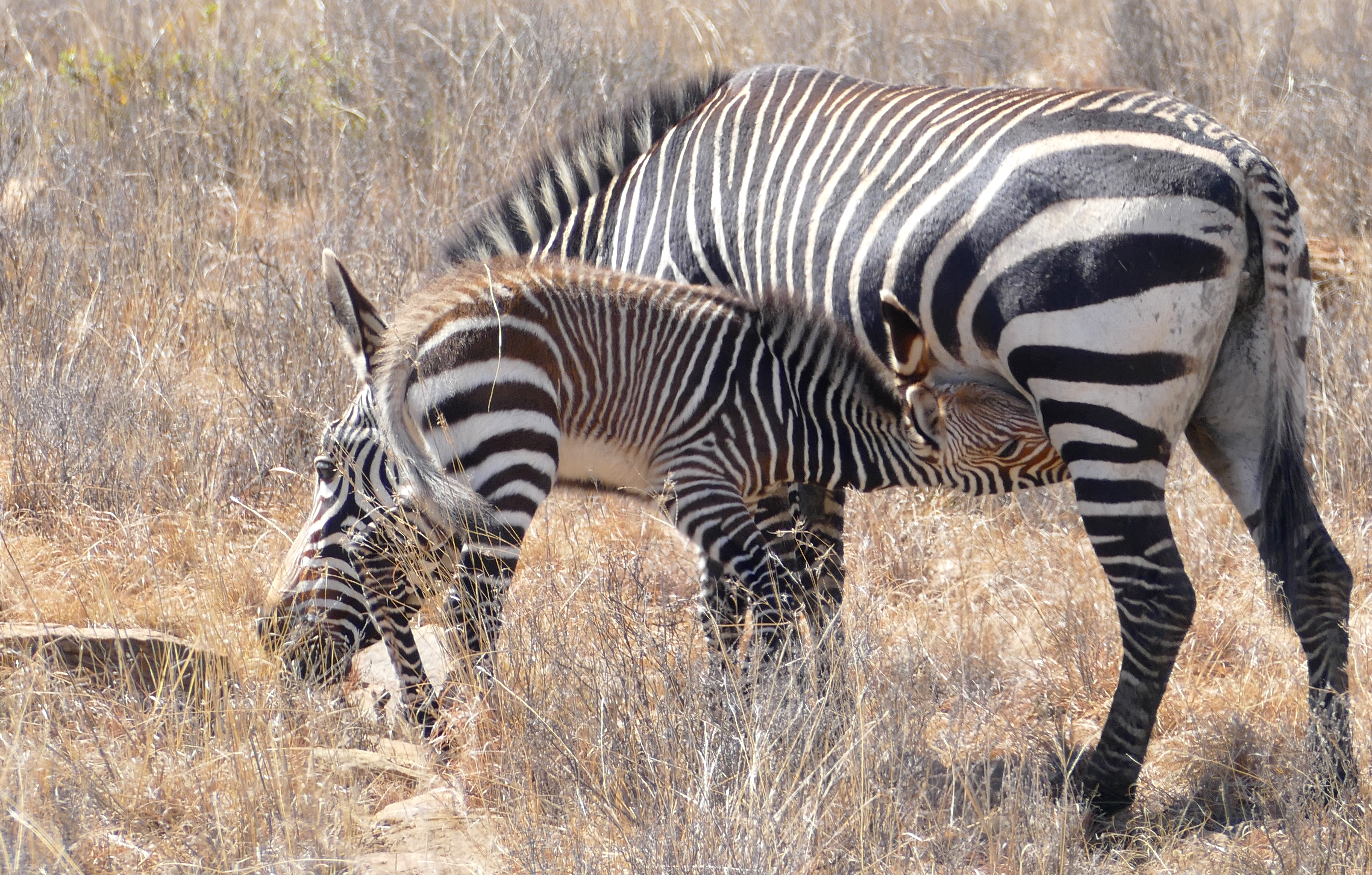 Mountain Zebra NP, Eastern Cape, SOUTH AFRICA